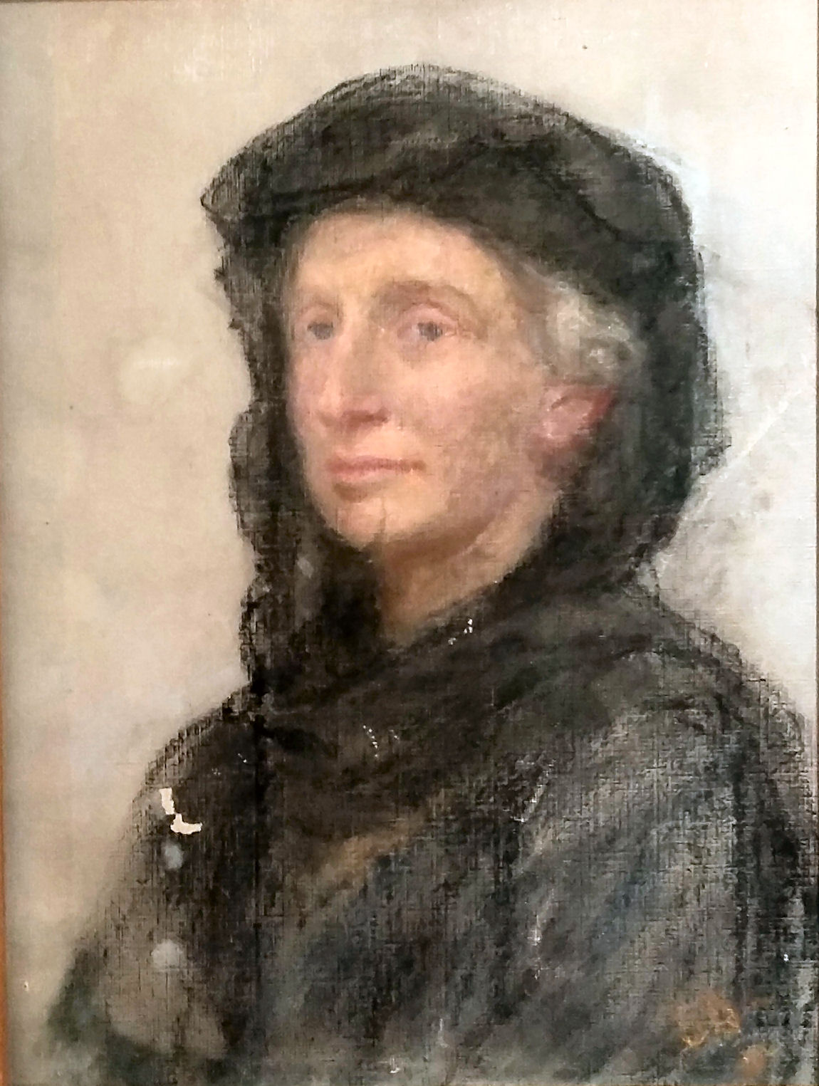 Portrait of Annie Jane Lawrence (1863-1953)